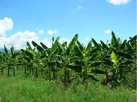 Modern landscape in Palmar Sur, Costa Rica